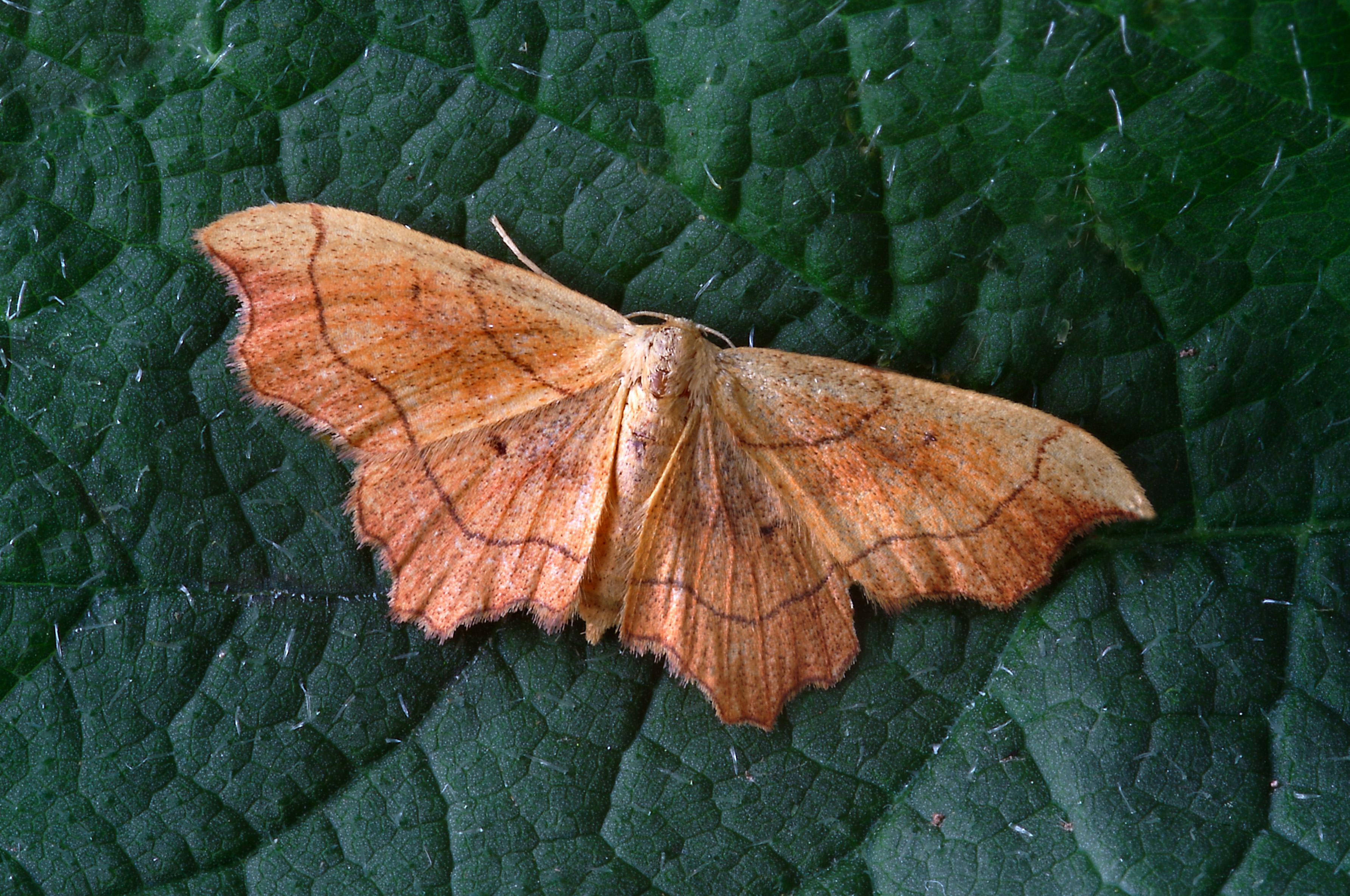 Longdon Marsh, Worcestershire.